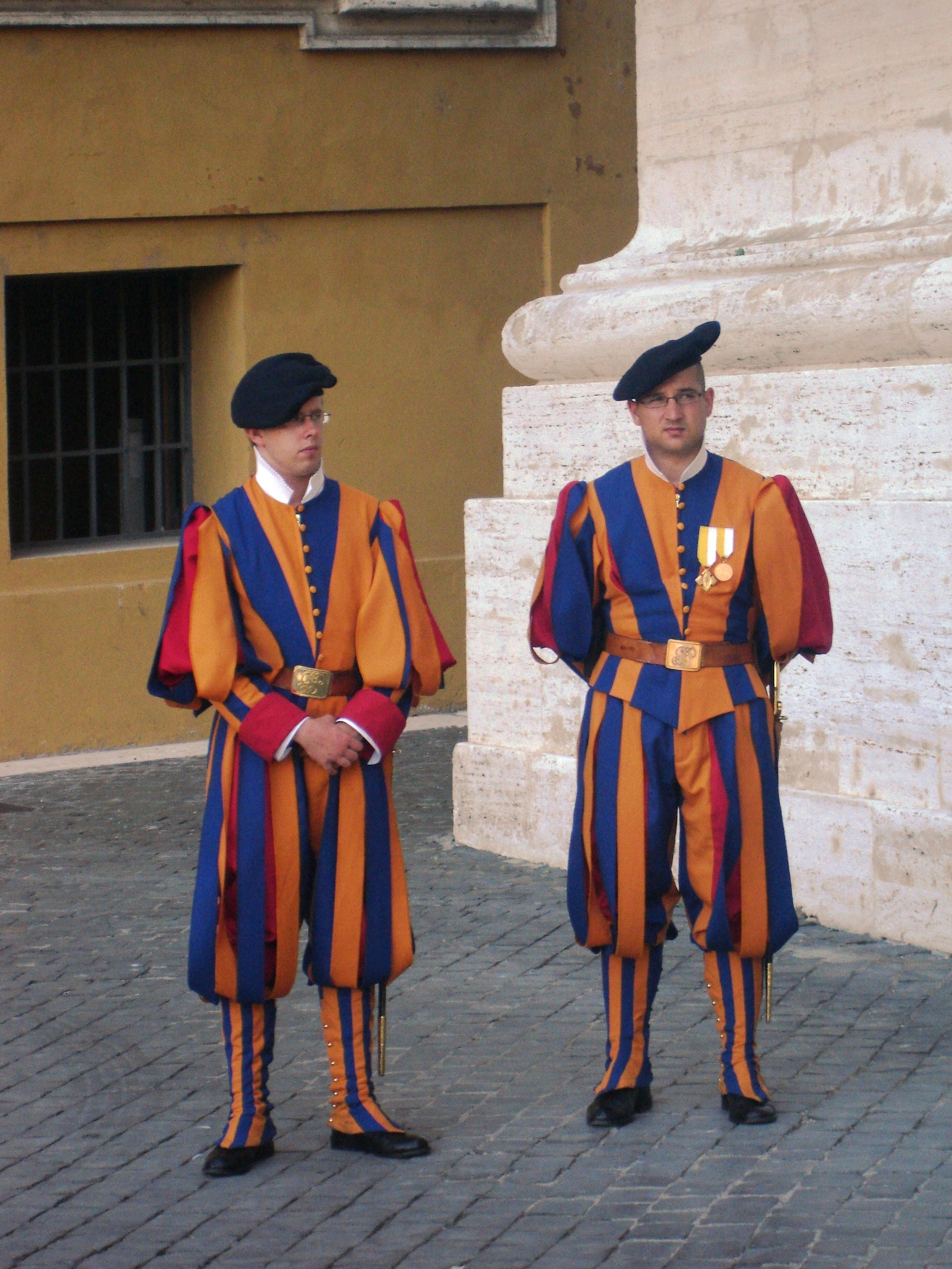 Vatican gards